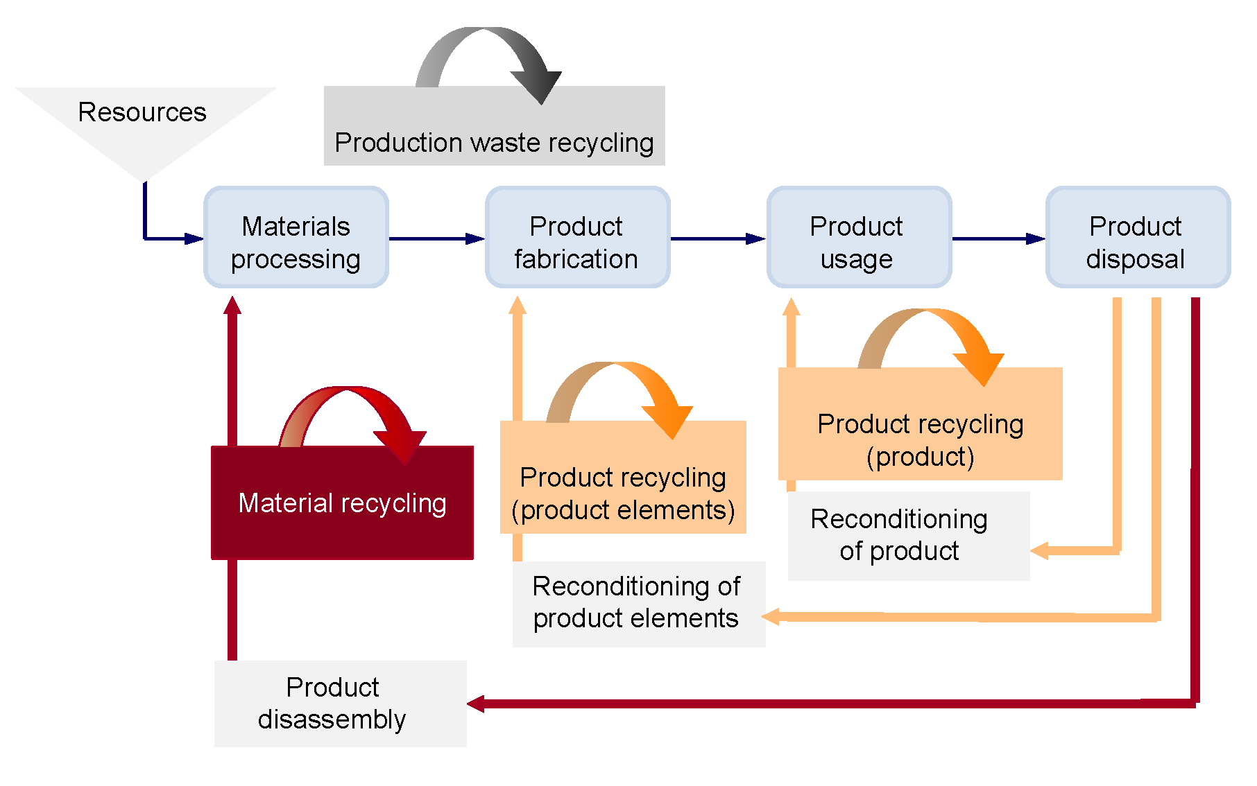 The recycling process of any product can be differentiated into production waste recycling and two loops for disposal of the product (product and material recycling)